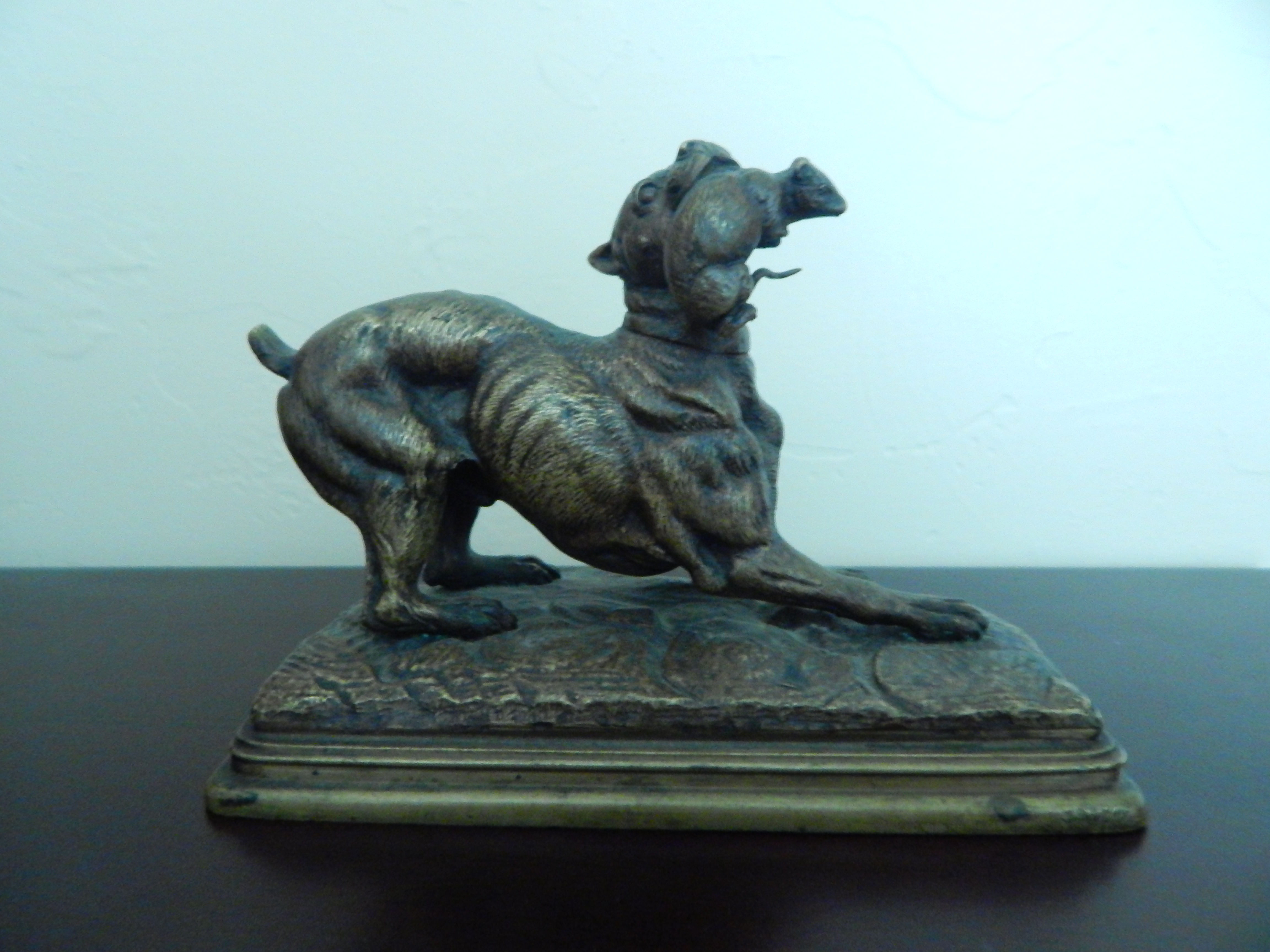 A circa 1859 bronze sculpture of a dog (possibly a Staffordshire bull terrier) holding a rat in his mouth by French sculptor Paul Edouard Delabrierre (1829-1912).